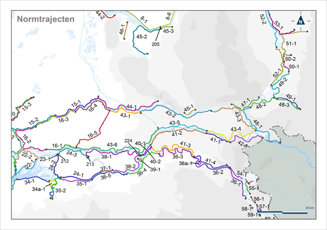 Dike sections in the Netherlands were the allowable inundation probability (failure probability) is given in the Water Law (Central Netherlands)